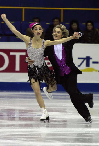 2008-2009 ISU Grand Prix Final - Meryl Davis and Charlie White